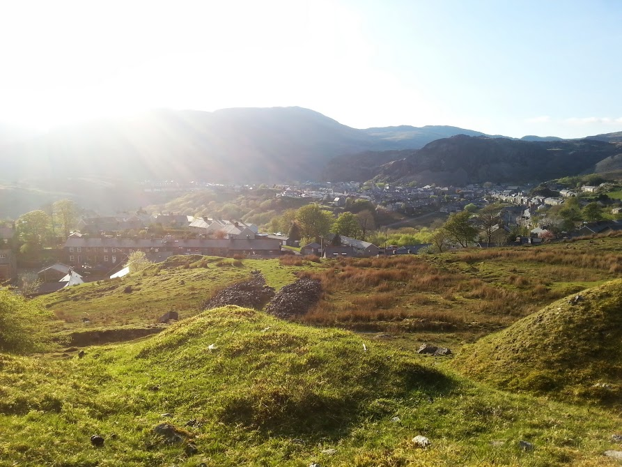 A view of Blaenau Ffestiniog from the mountains on the east.